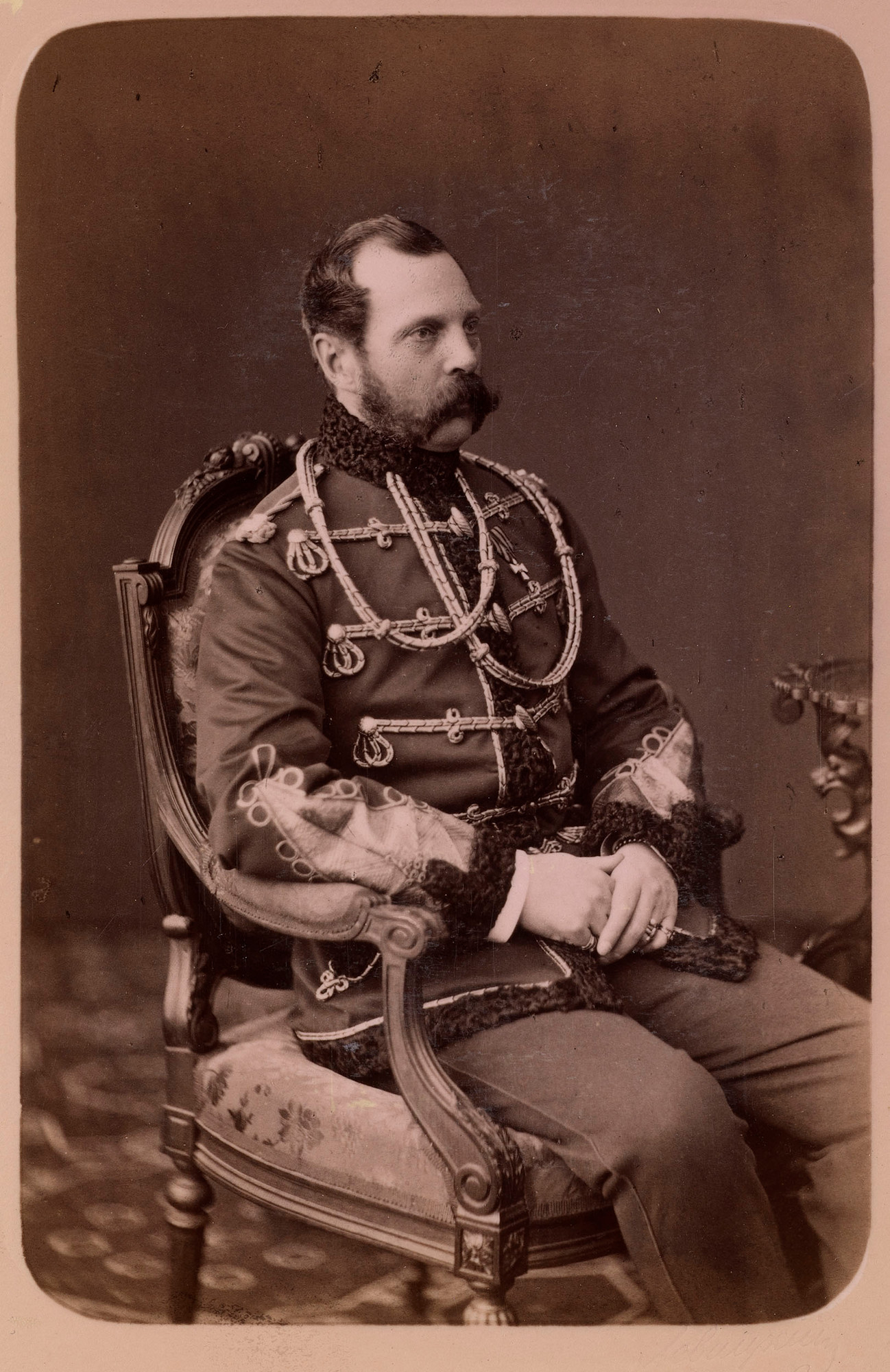 Tsar Alexander II.